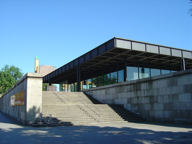 Neue Nationalgalerie Native nameNeue NationalgalerieLocationBerlinCoordinates52° 30′ 24.5″ N, 13° 22′ 04.5″ E Established1968Website Neue Nationalgalerie, Berlin, Germany, view from Tiergarten (Kulturforum)